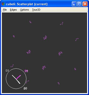 Screenshot of ggobi, showing cube 6 dataset optimized with Central mass index